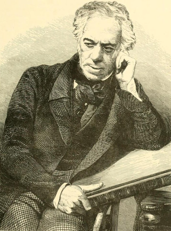 Portrait of Sir William Allan (engraving)